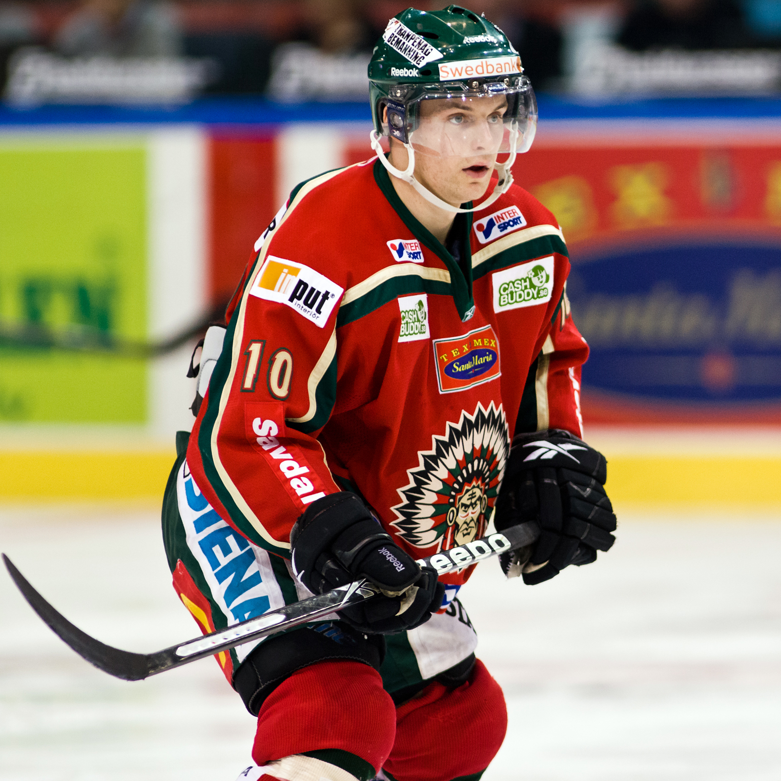 Fredrik Pettersson of Frölunda HC during an Elitserien game against Linköpings HC in Scandinavium, Gothenburg, on November 10, 2009